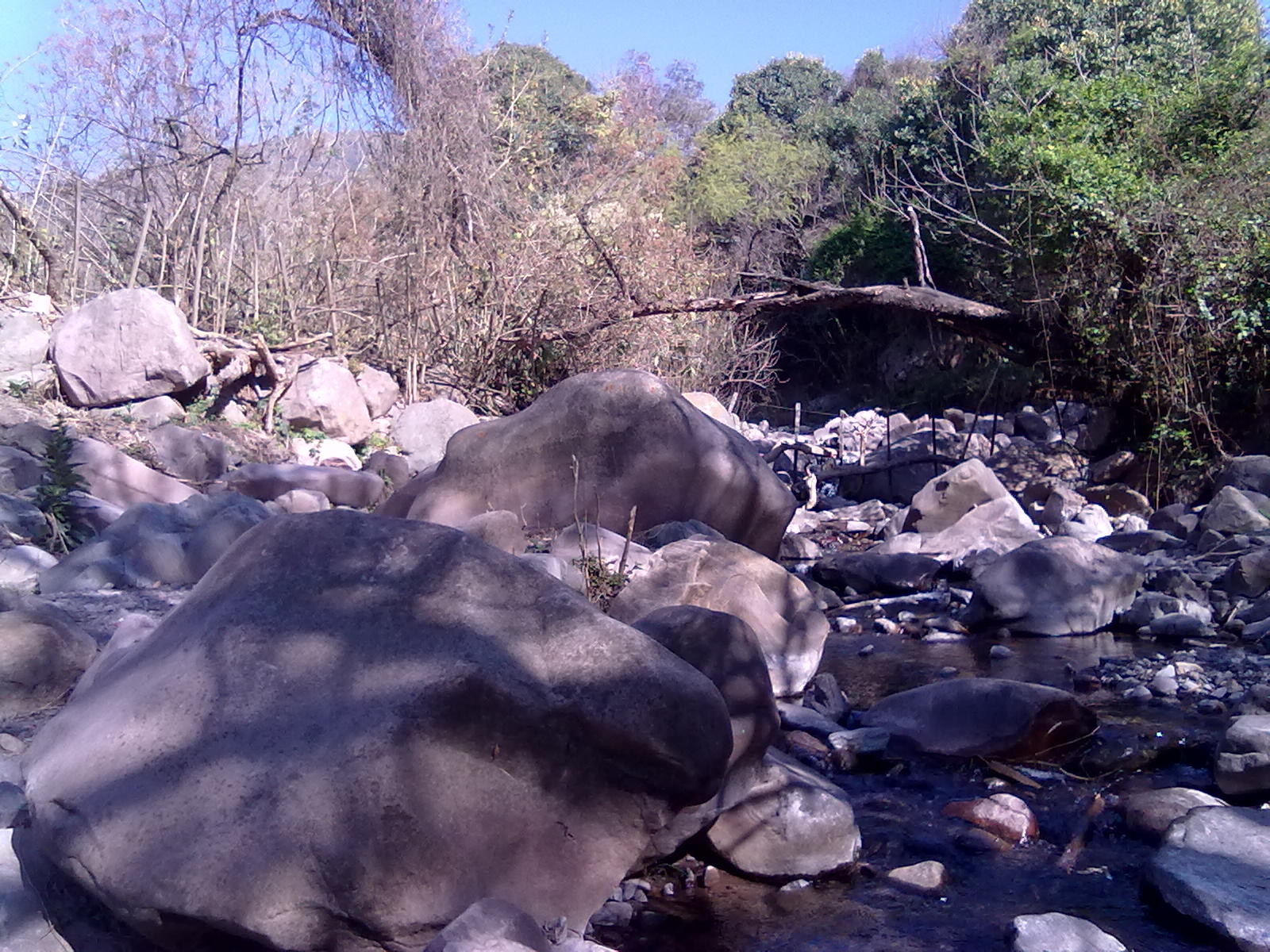 San Lorenzo River in Villa San Lorenzo, Salta, Argentina. View from Hostal Selva Montana.